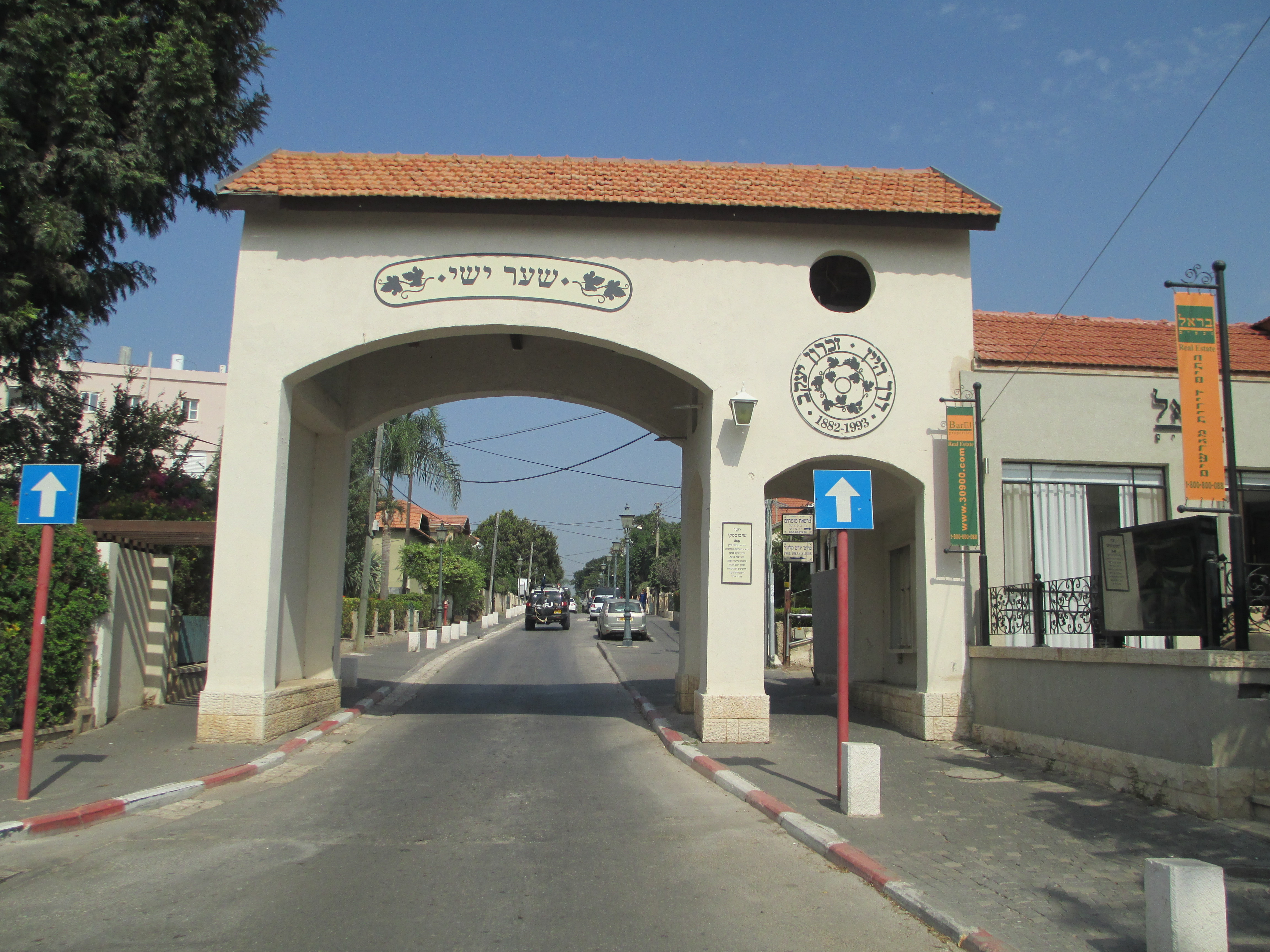 Yishai's gate in Zikhron Ya'akov